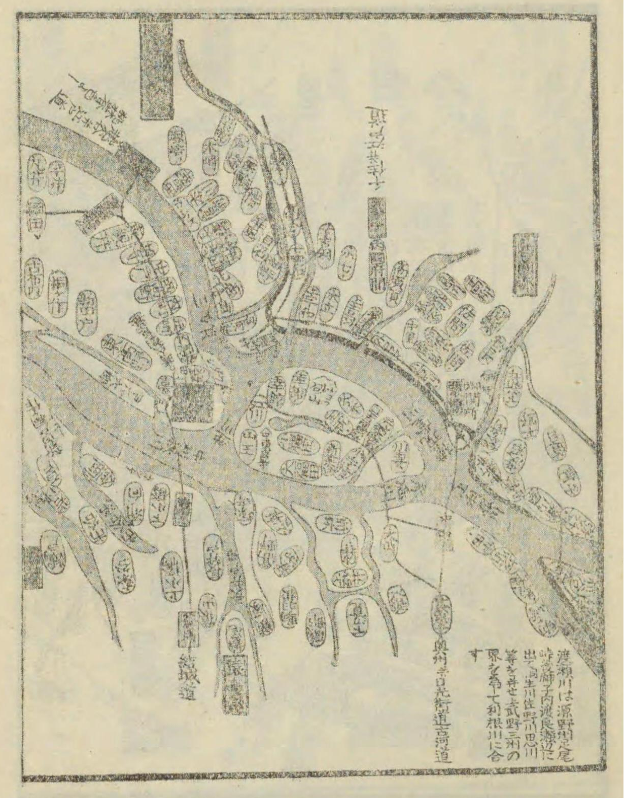 National Diet Library Digital Collection This image is available from the website of the National Diet Library This tag does not indicate the copyright status of the attached work. A normal copyright tag is still required. See Commons:Licensing for more information. English | 日本語 | +/−